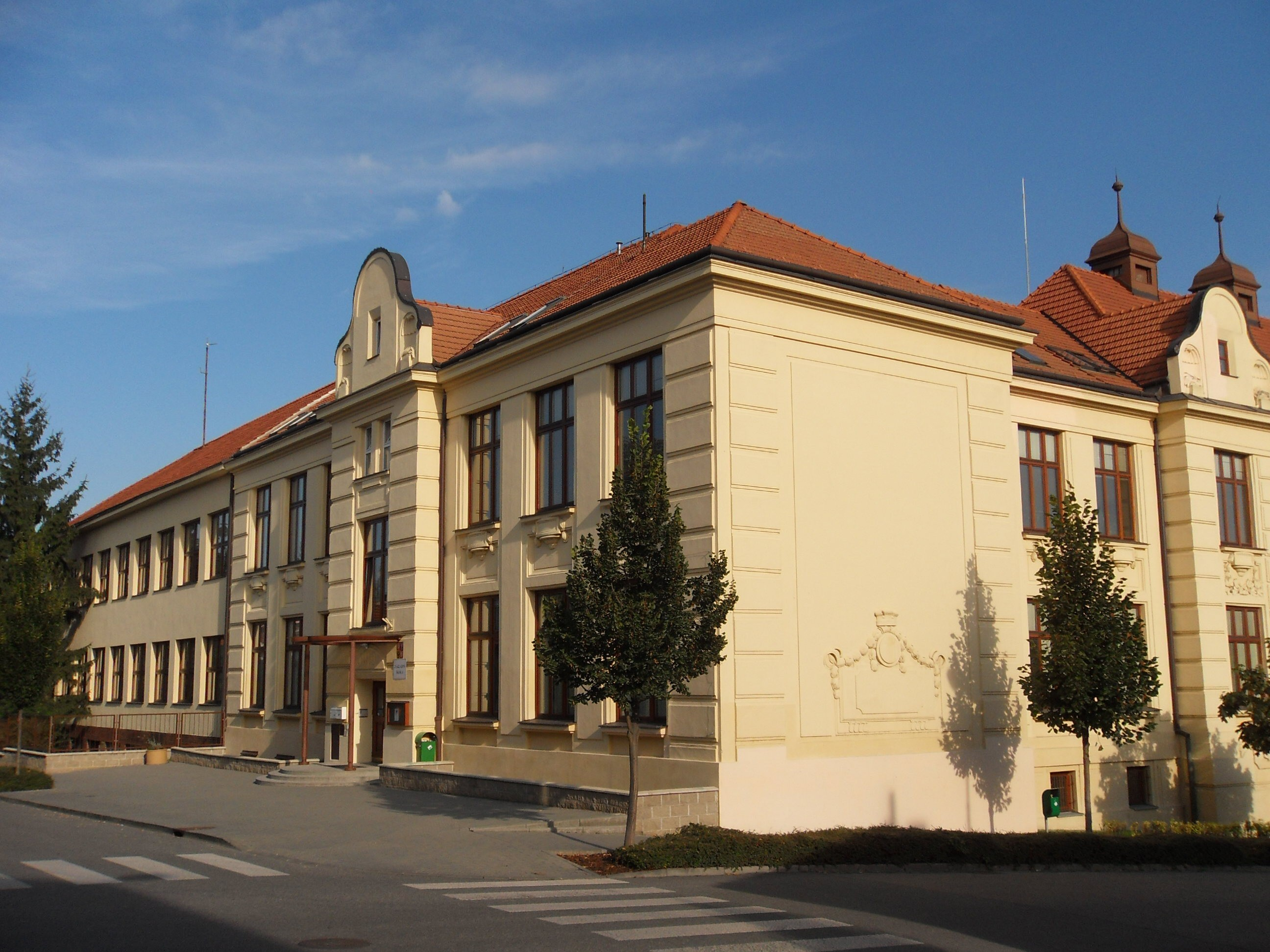 Sirotkova elementary school, Brno, Czech Republic